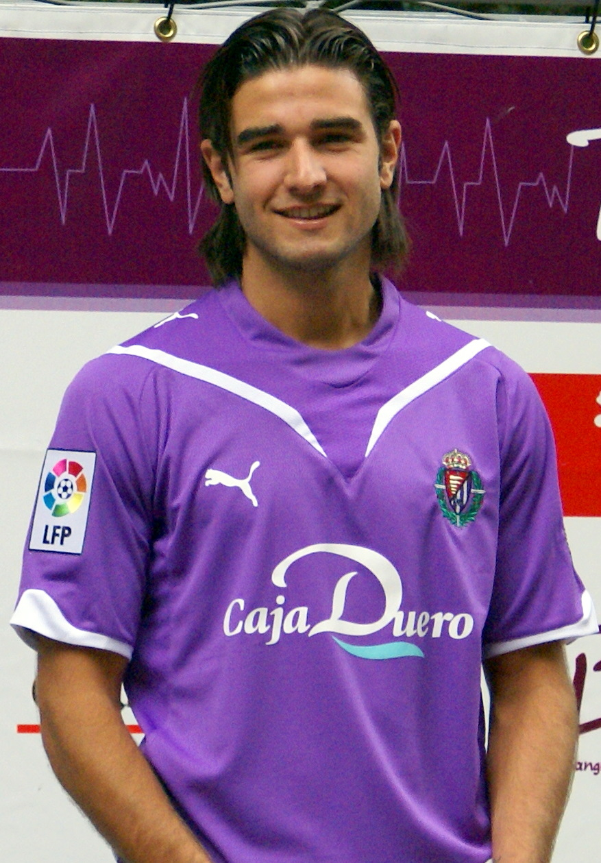 Antonio Barragán during Puma show for new shirts of Real Valladolid in Valladolid.